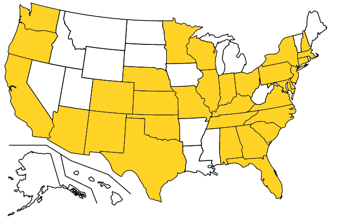 Map of states which have Primrose Schools franchises.